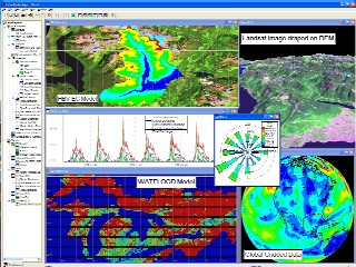 Screenshot of the Green Kenue application